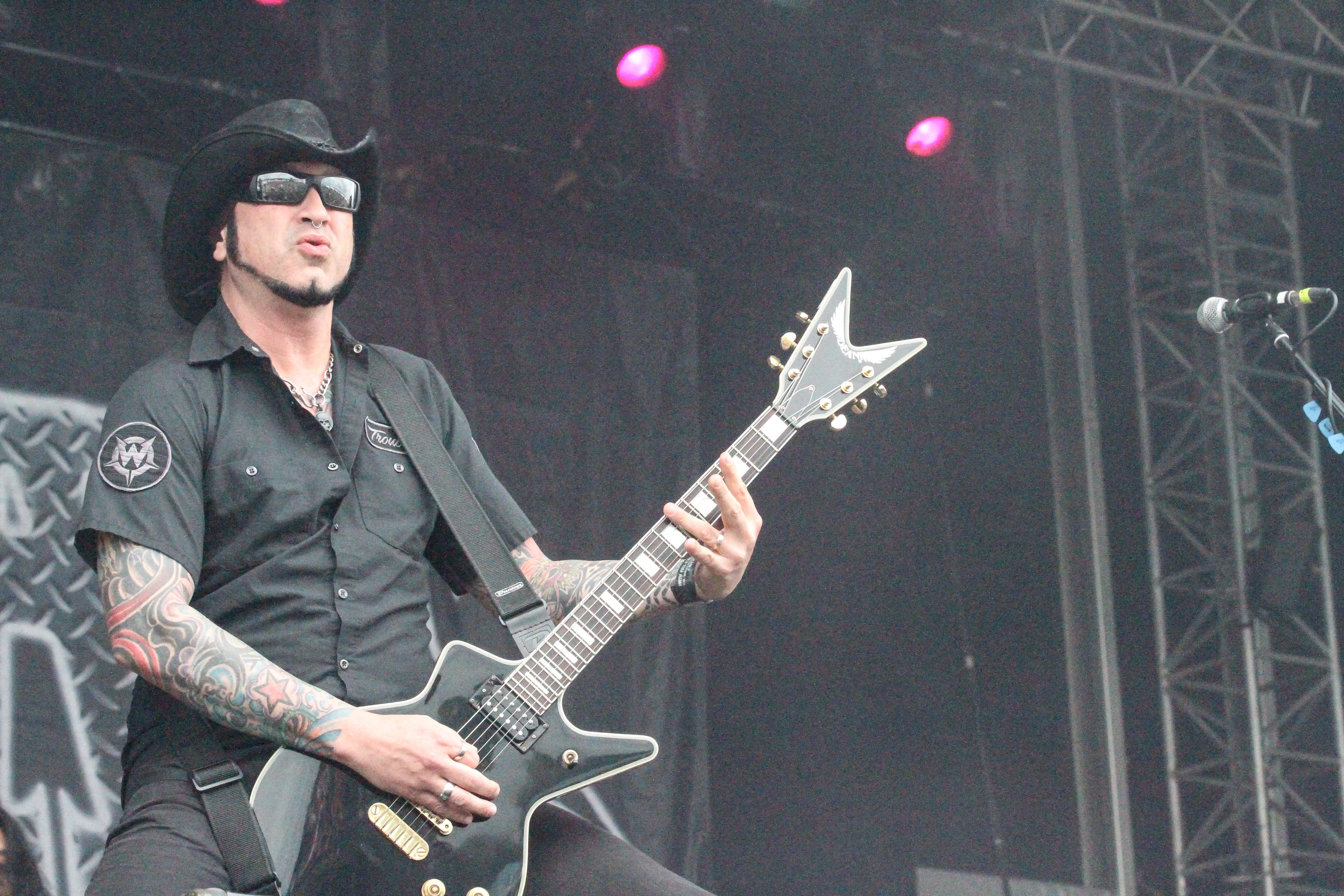 Hellyeah performing at With Full Force Festival 2013